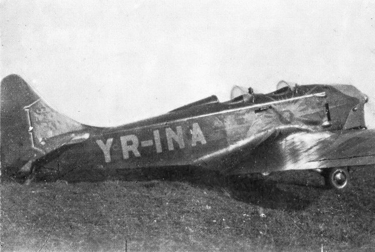 IAR-22 YR-INA of miss Irina Burnaia, repainted